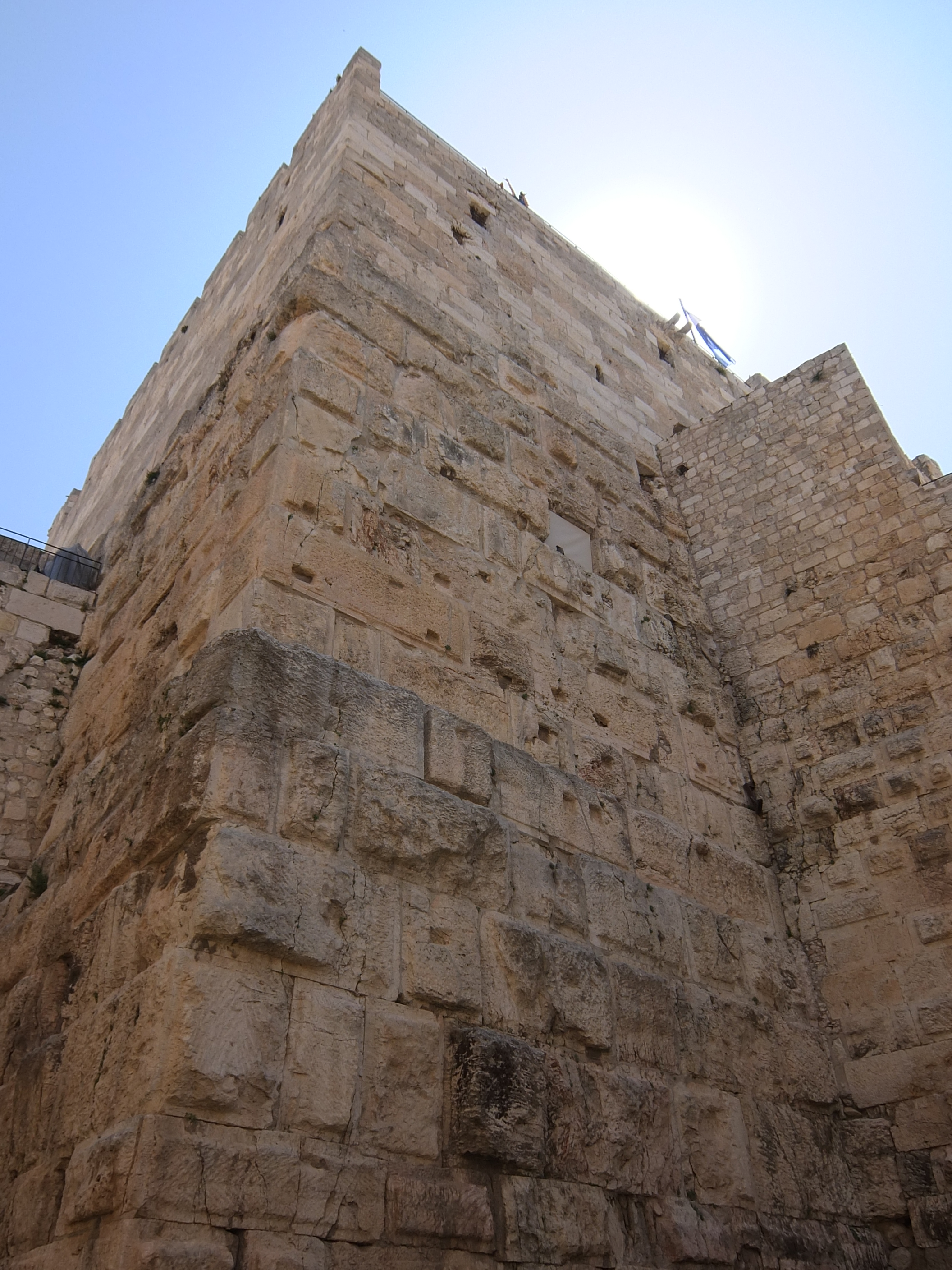 Tower of Phasael, the lower courses of stone built by Herod the Great